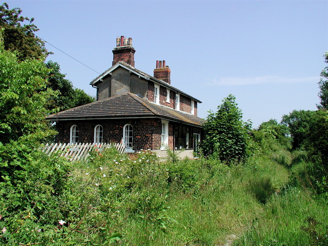 Station House, Ottringham in the East Riding of Yorkshire, England.The Hull to Withernsea railway line was closed to passengers in October 1964 and closed down altogether in May 1965. The old station building at Ottringham is now a private residence.